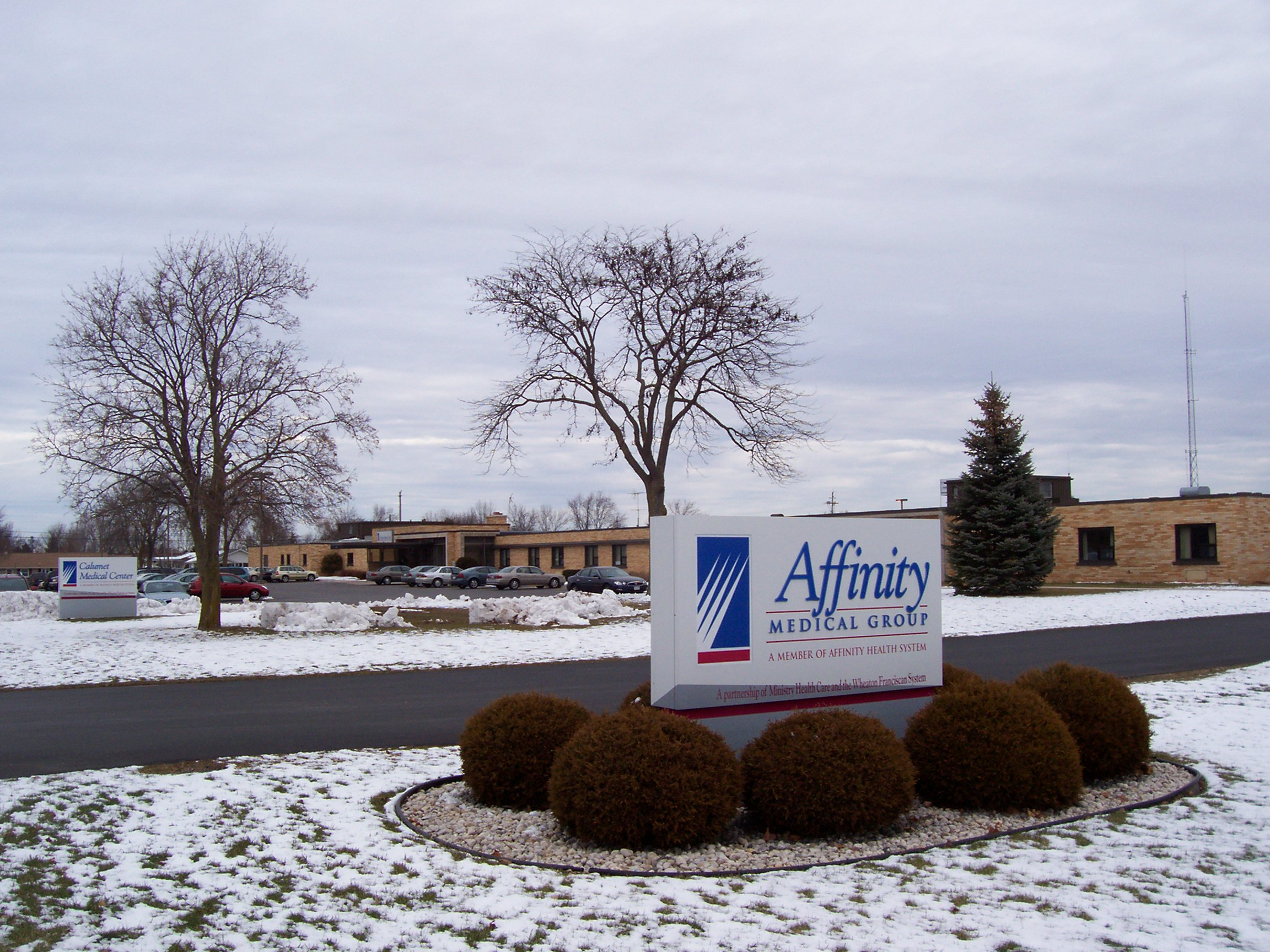 Calumet Medical Center in Chilton, Wisconsin, USA. It is owned by "Affinity Medical Group".